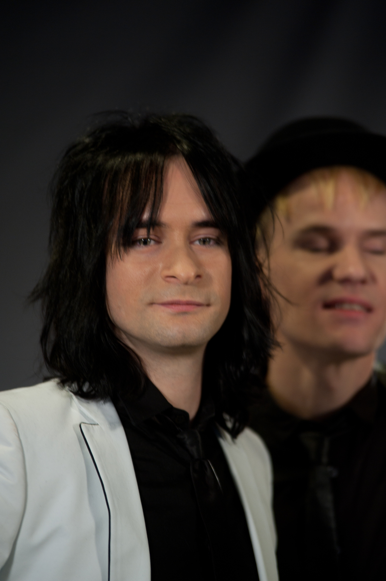 Kristofer Östergren of Melody Club 2010 at a press conference for Melodifestivalen 2011